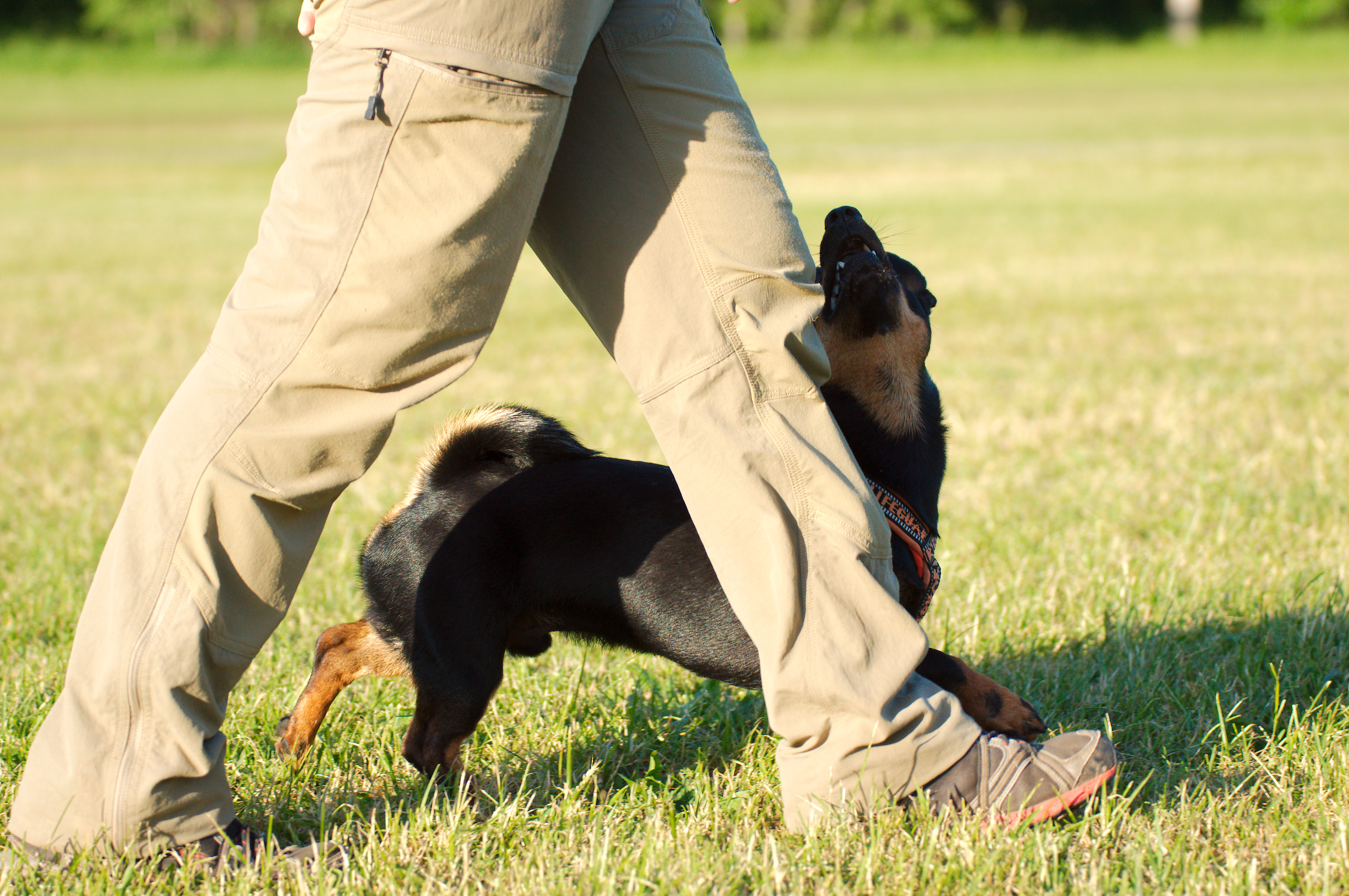 A lancashire heeler doing heelwork to music.